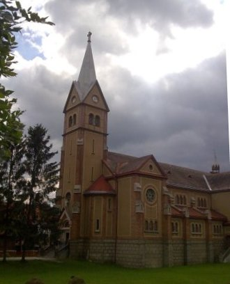 Roman Catholic church of Csíkdánfalva (Dăneşti), Transylvania, Romania